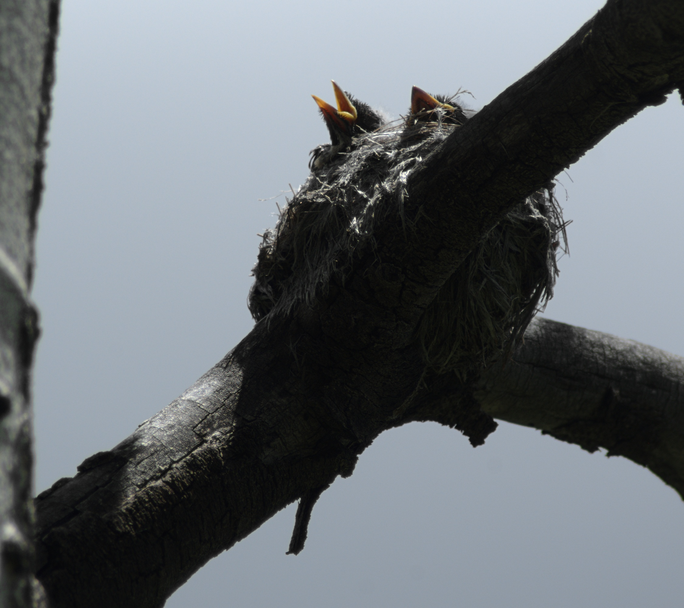 Nest and nestlings of Western Wood-Pewee, Contopus sordidulus veliei, Cerro Grande trail, Bandelier National Monument, Sandoval County, New Mexico. Identification based on parents' calls and their appearance in a picture taken by Ranger Kevin Stillman.